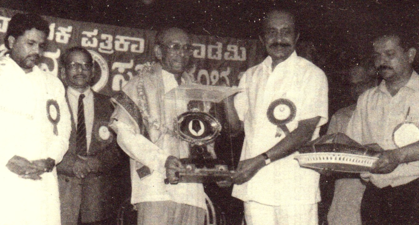 H. S. Krishnaswamy Iyengar (H. S. K.) receiving Karnataka Patrika Akademi Prashasthi (Academy of Press - Karnataka Chapter) in recognition of his lifetime contribution to world of Kannada journalism.